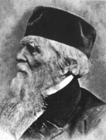 Portrait of Capt. William Davies Evans (27 January 1790 – 3 August 1872). He was a seafarer and inventor, though he is best known today as a chess player. In chess he is the creator of the 'Evans Gambit' (1.e4 e5 2.Nf3 Nc6 3.Bc4 Bc5 4.b4)